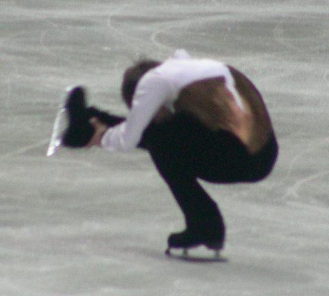 Sergei Davydov on the 2007 European Figure Skating Championships in Warsaw - free skate